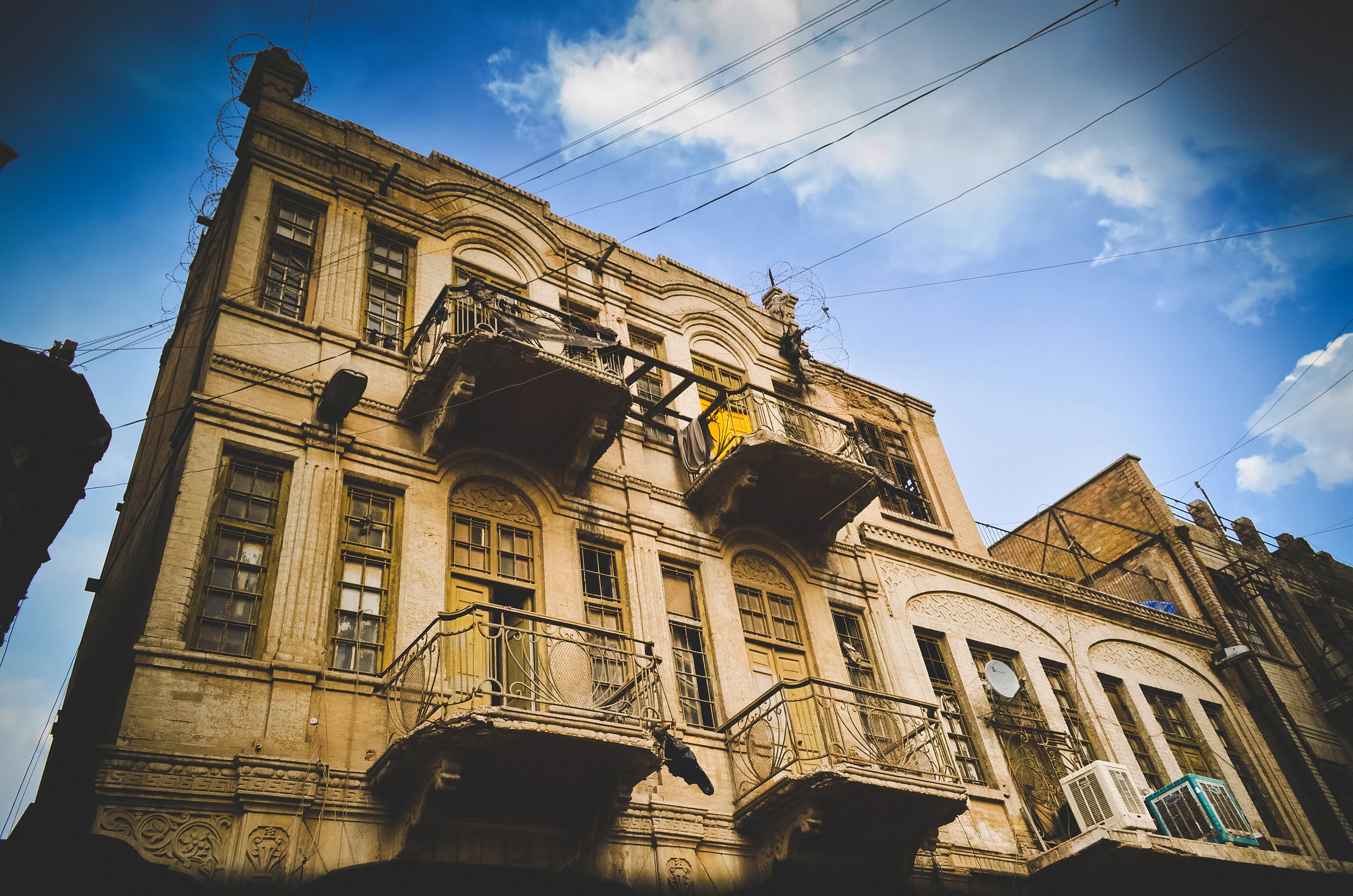 Old building in Al-Rasheed st. in Baghdad, Iraq